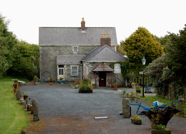 The former stationmaster's house at Camelford Station on the now-dismantled ex-LSWR North Cornwall railway